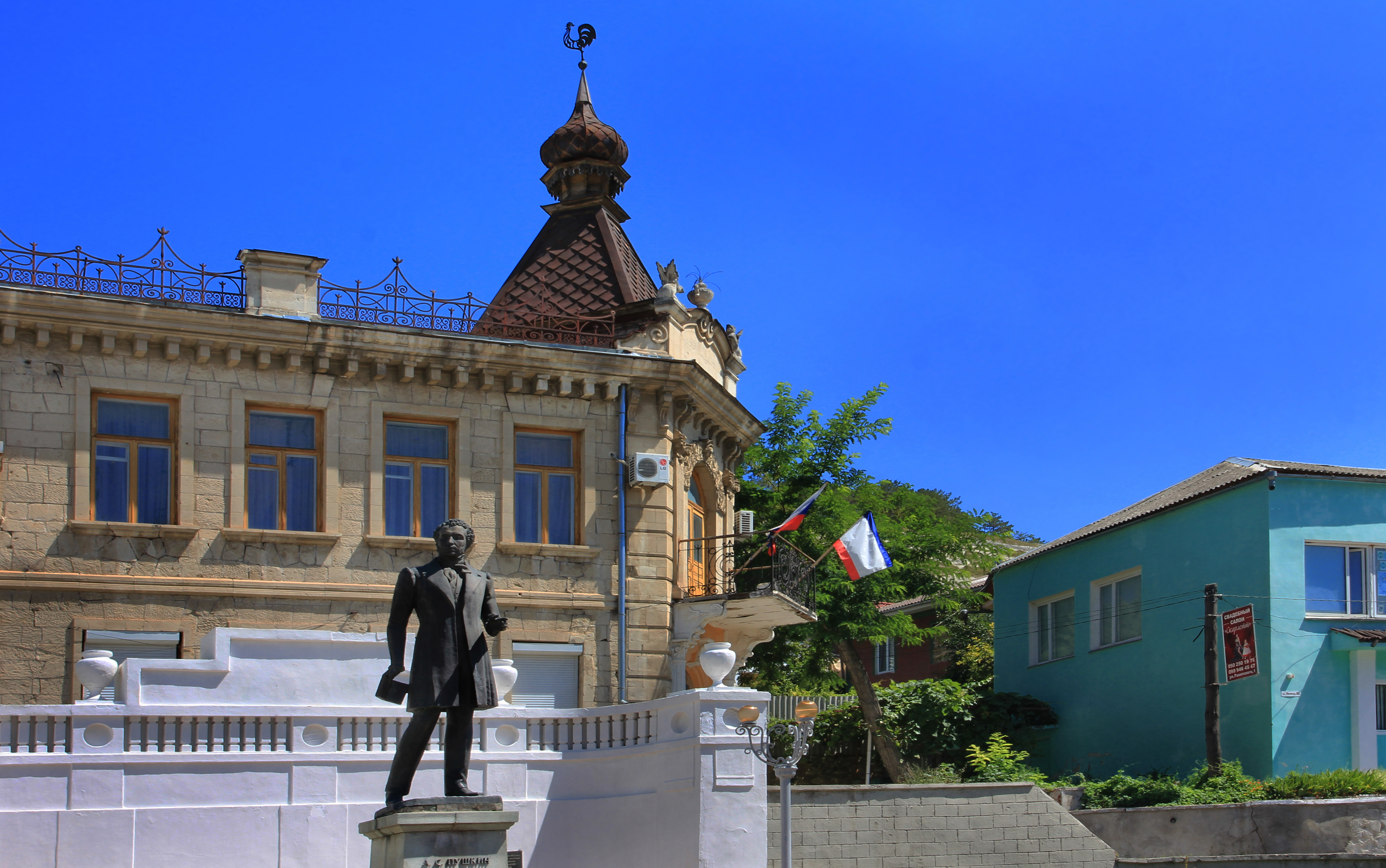 Monument to Alexander Pushkin in Bakhchisaray, Crimea, Russia